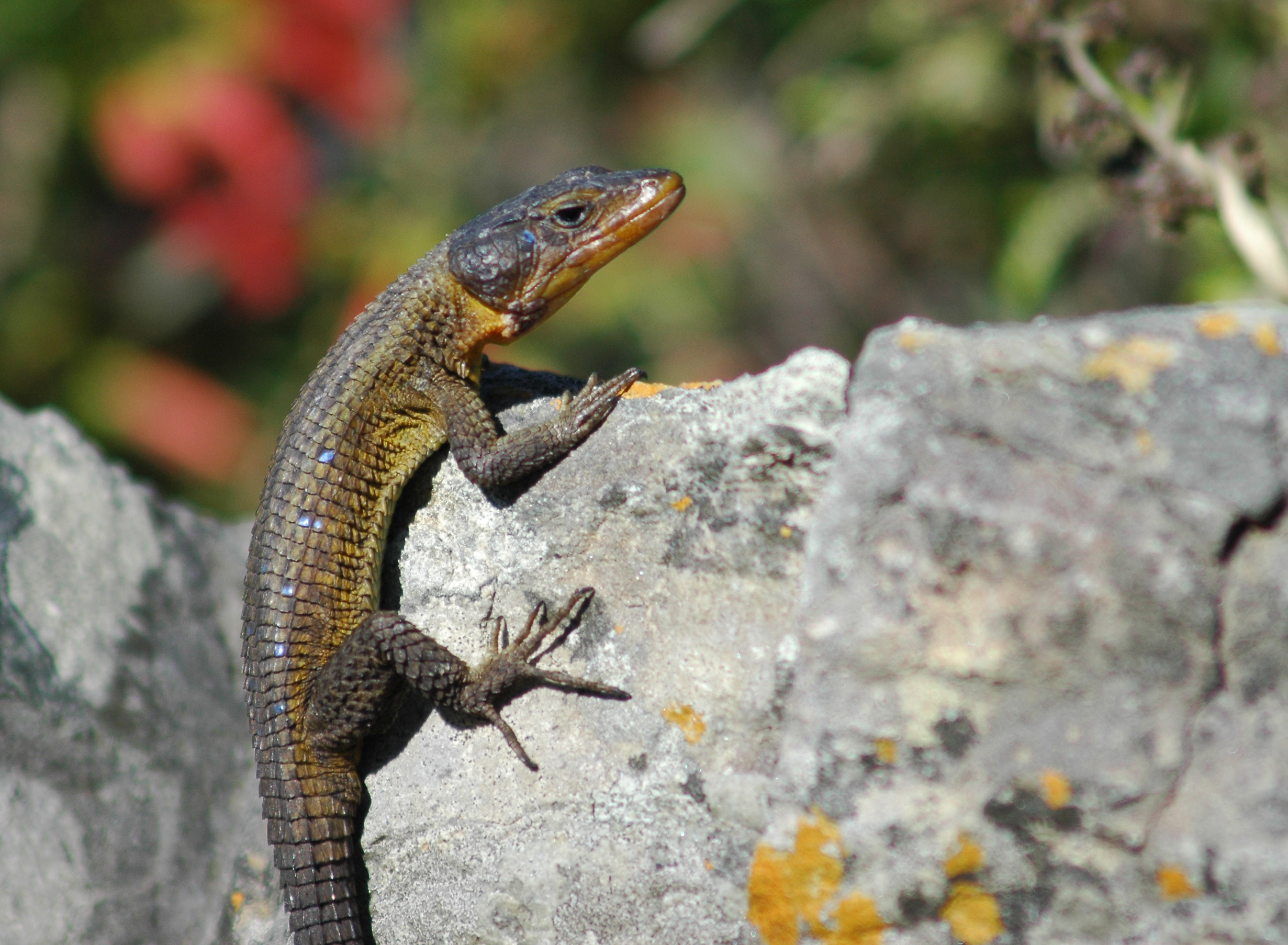 A Blue-spotted girdled lizard at Nature's Valley, South Africa. Note the lack of orbital scales, and the connecting nasal scales. Copious small, granular scales on body and scattered enamel-blue spots, after which it is named.